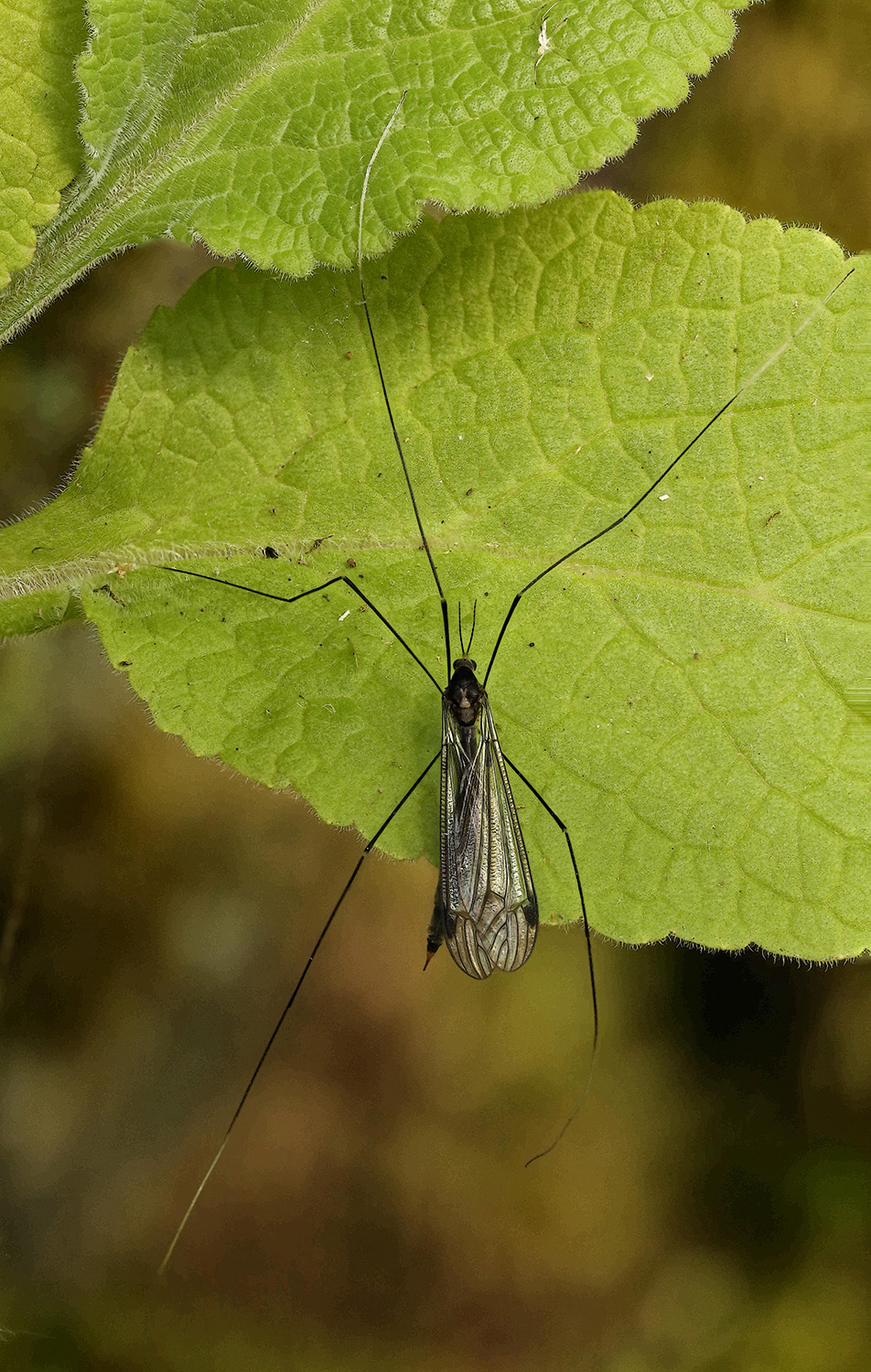 Dolichopeza albipes, Trawscoed, North Wales, July 2015